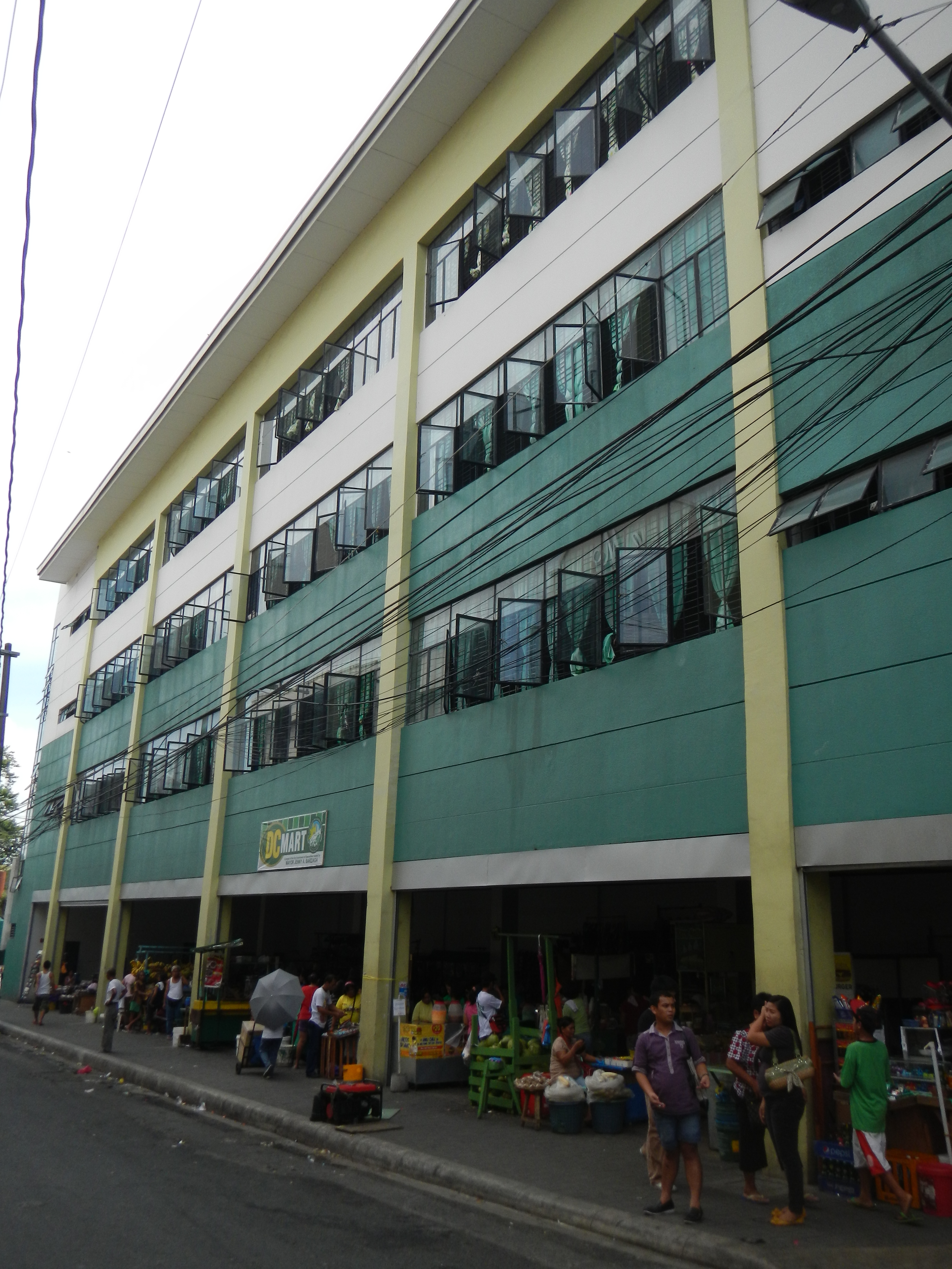 DC Mart - Dasmariñas [1] Website, officially the City of Dasmariñas (often shortened to Dasma; Filipino: Lungsod ng Dasmariñas) is the largest city, both in terms of area and population in the province of Cavite, Philippines. Website Immaculate Conception[2]---------[N.B. June 7, 1st Friday, 2013 Photography of - From Bulacan at 9:05 a.m., I took photo of Dasmariñas [3] City at 12:49 pm, the Aguinaldo Highway, then, at 3:35 pm, I took photo of Carmona, Cavite [4] - I finished San Lazaro Carmona Race Track, Carmona Welcome Arch and Binan Laguna Welcome Arch and Araneta Coliseum Quezon City at 8:31 p.m. and started uploading via slow internet next day June 8, 2013 at 6:59 pm - I hereby certify that these rarest, raw, original and unedited photos are exclusive for Commons and Wikipedia never uploaded in any Internet or any site, and for the public domain without any condition.]---------[N.B. June 7, 1st Friday, 2013 Photography of - From Bulacan at 9:05 a.m., I took photos of Dasmariñas [5] City at 12:49 pm, the Aguinaldo Highway, then, at 3:35 pm, I took photos of Carmona, Cavite [6] - I finished San Lazaro Carmona Race Track, Carmona Welcome Arch and Binan Laguna Welcome Arch and Araneta Coliseum Quezon City at 8:31 p.m. and started uploading via slow internet next day June 8, 2013 at 6:59 pm - I hereby certify that these rarest, raw, original and unedited photos are exclusive for Commons and Wikipedia never uploaded in any Internet or any site, and for the public domain without any condition.]